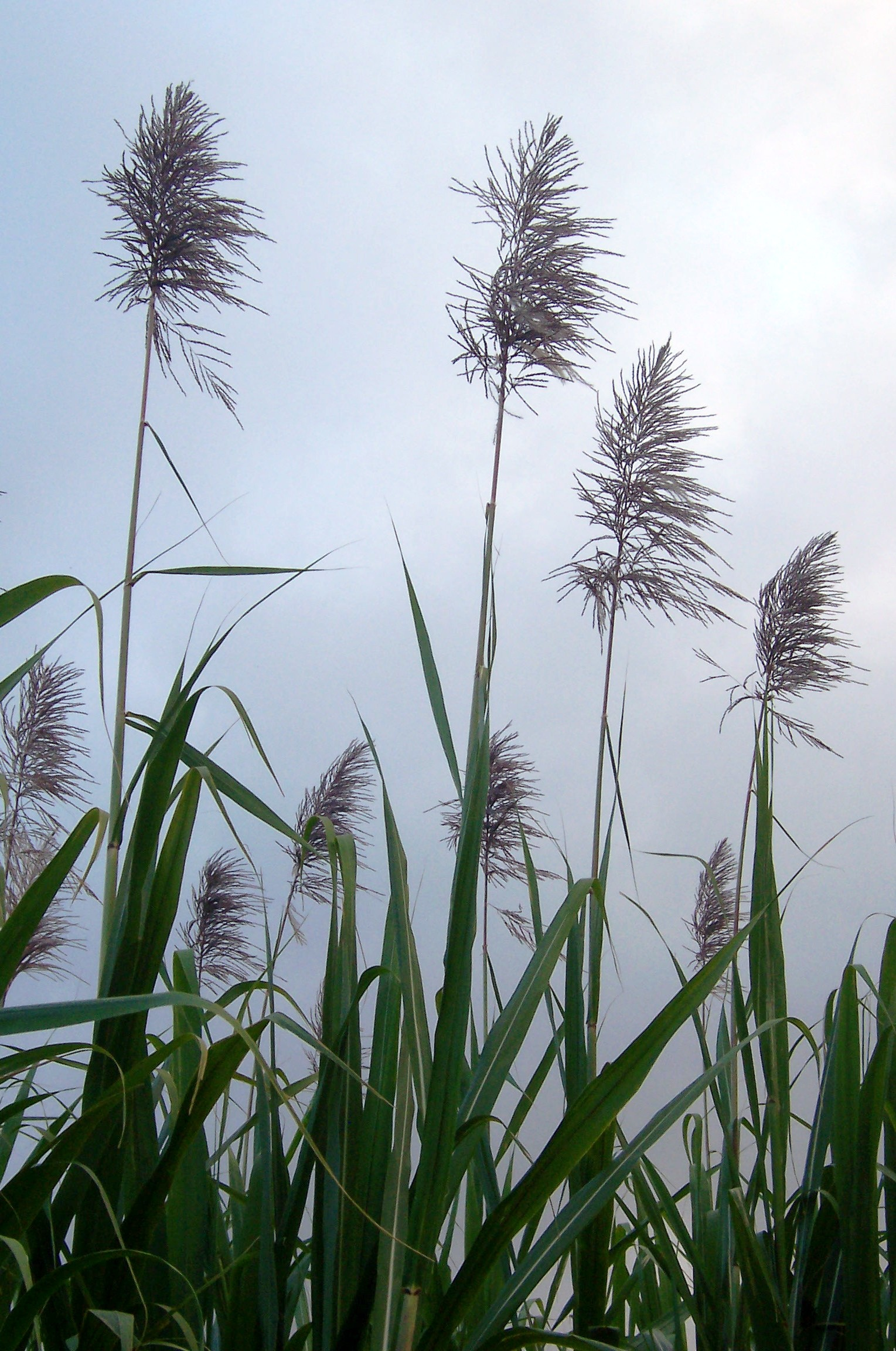 Flowers of sugar cane (Saccharum officnarum), Réunion island